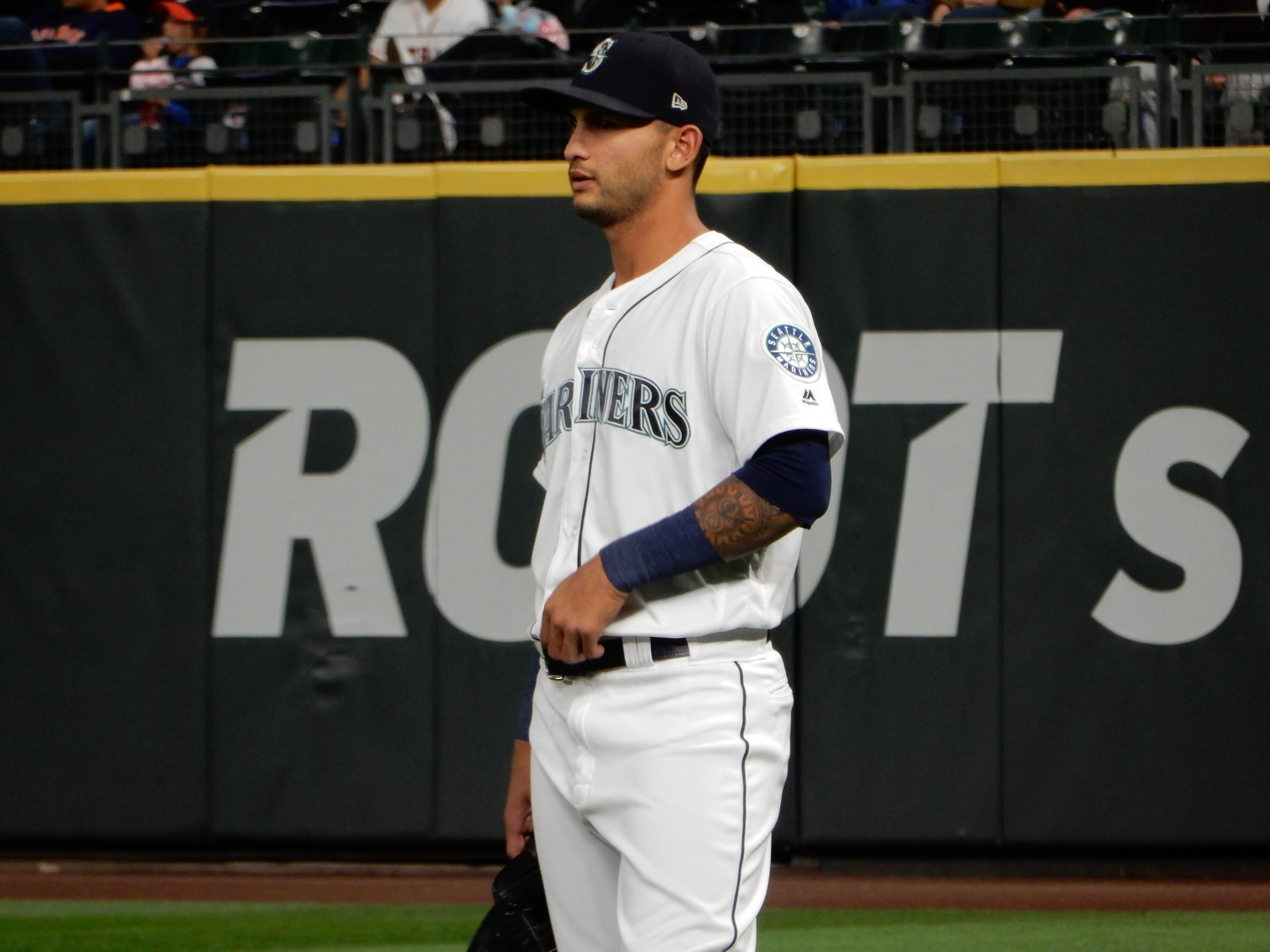 Tim Lopes Playing right field